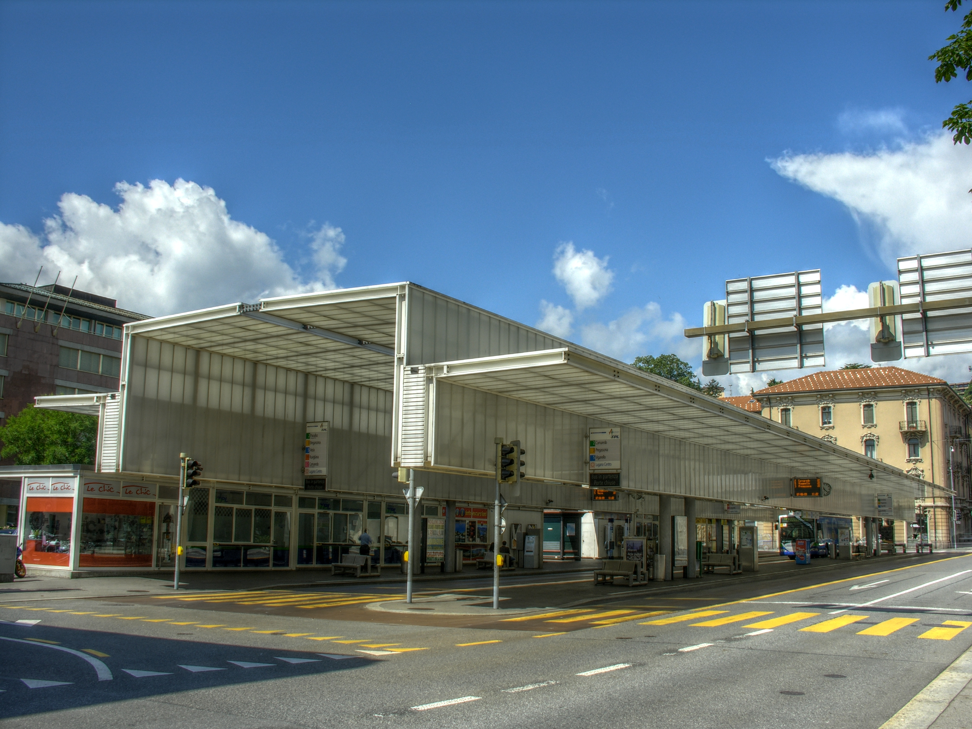 Lugano, Tessin, Switzerland - Mario Botta's TPL bus terminal